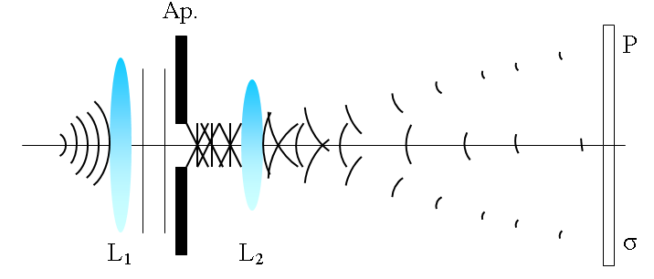 Setup used for fraunhofer and fresnel diffraction.